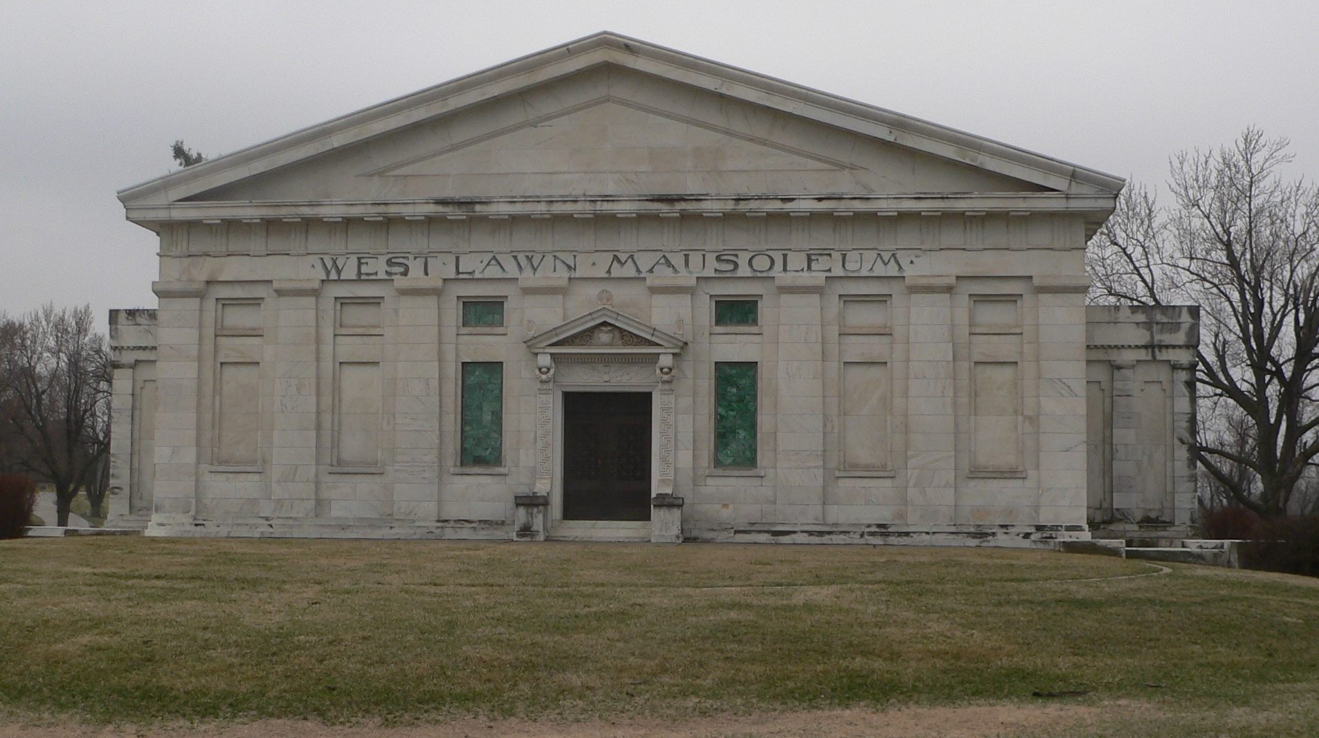 West Lawn Mausoleum, located in West Lawn Cemetery in Omaha, Nebraska; seen from the northeast.